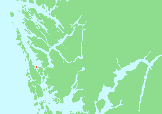 Locator map of Geitanger, Hordaland, Norway